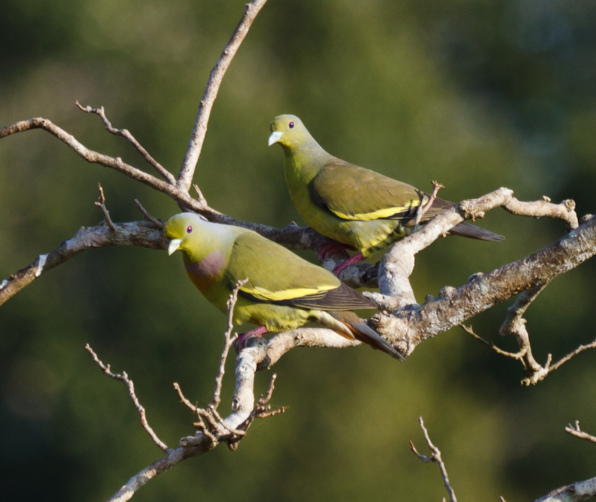 A pair of Orange-breasted Green Pigeons at Wilpattu National Park, Sri Lanka.